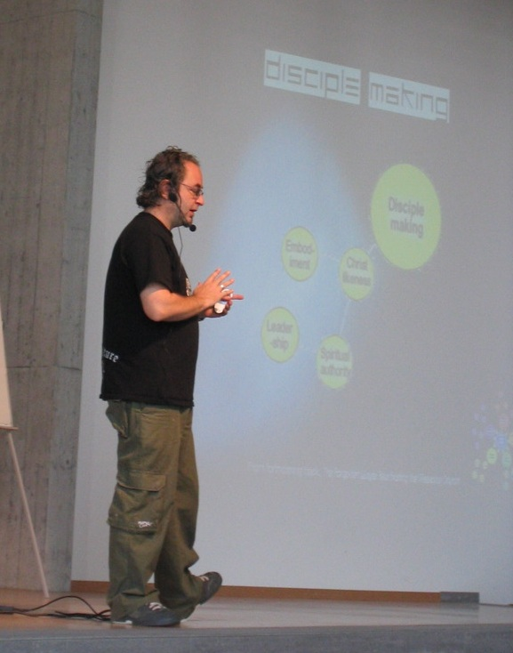 alan hirsch | romanshorn